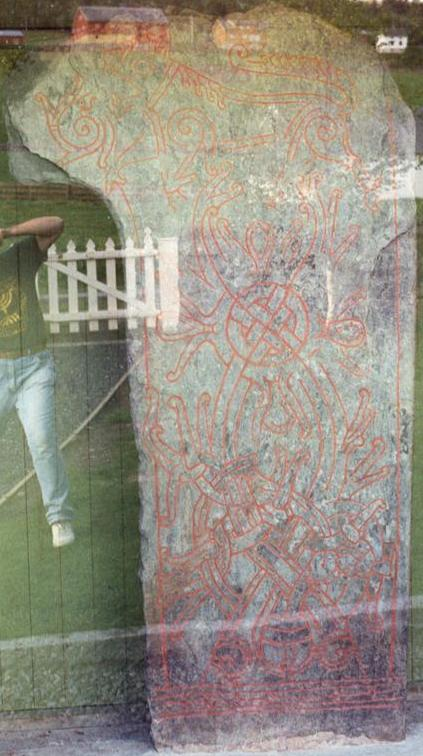 Runestone in Vang i Valdres, Norway. The author's original has been cropped to try and focus on the objective, not the photographer! Norway Vagnstein 1995-05-G-04-150.jpg